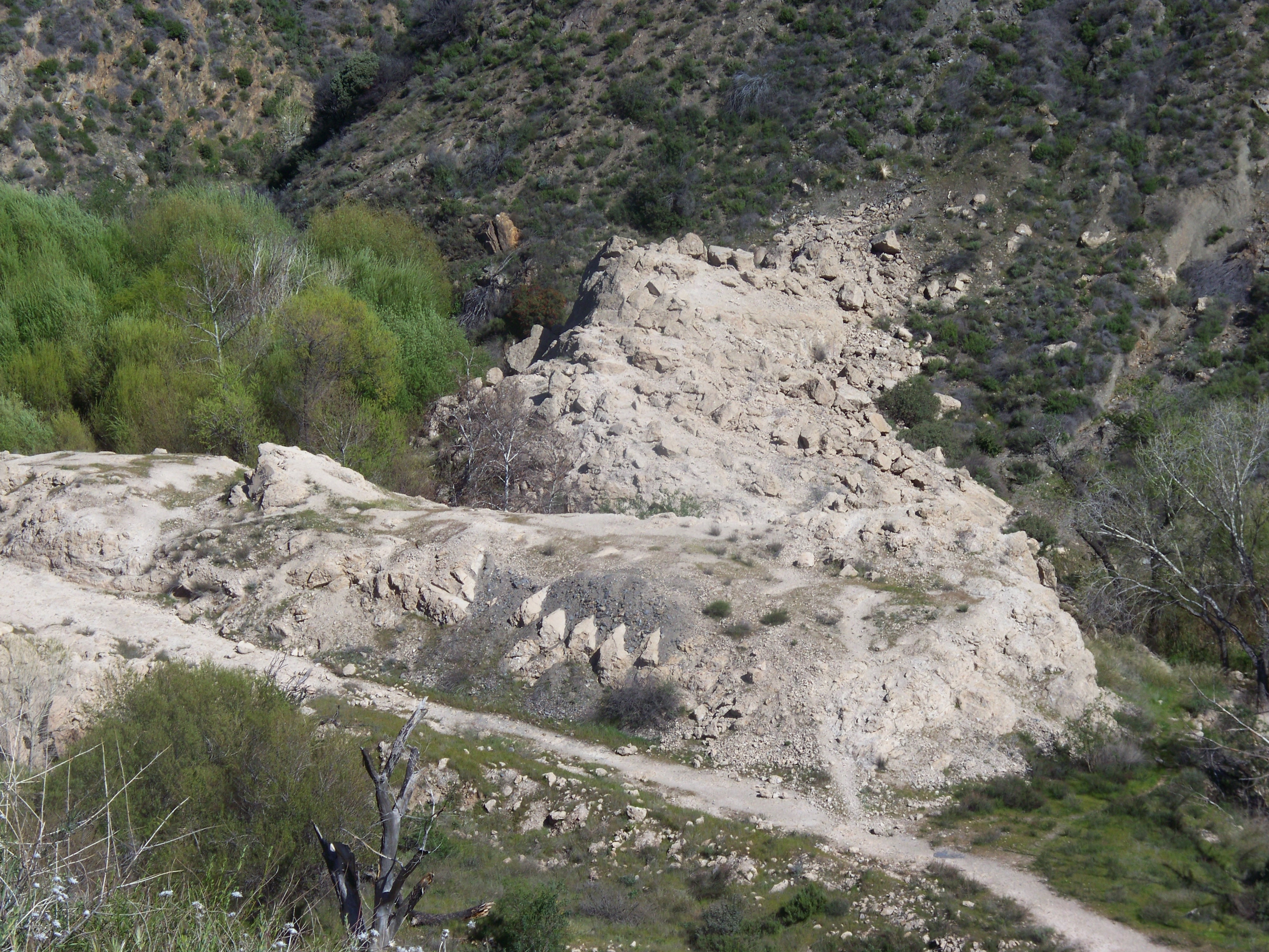 This photograph shows the remains of the base of the St. Francis Dam. After its collapse in 1928 the remaining blocks, including what had been the the large center section which had remained standing, were blasted and jack hammered. This was done in order to discourage sightseers and to avoid additional accidents after a teen fell to his death after ascending the remaining standing block of the concrete dam. Nevertheless, some of the steps that defined the face of the curved concrete gravity dam are visible in the foreground of these remains. This image differs from the original digital photograph; the contrast and color saturation have been modestly enhanced. Note: It would be interesting to learn from someone who knows whether or not the foreground piece that shows the steps is the remains of the block that remained standing after the collapse.